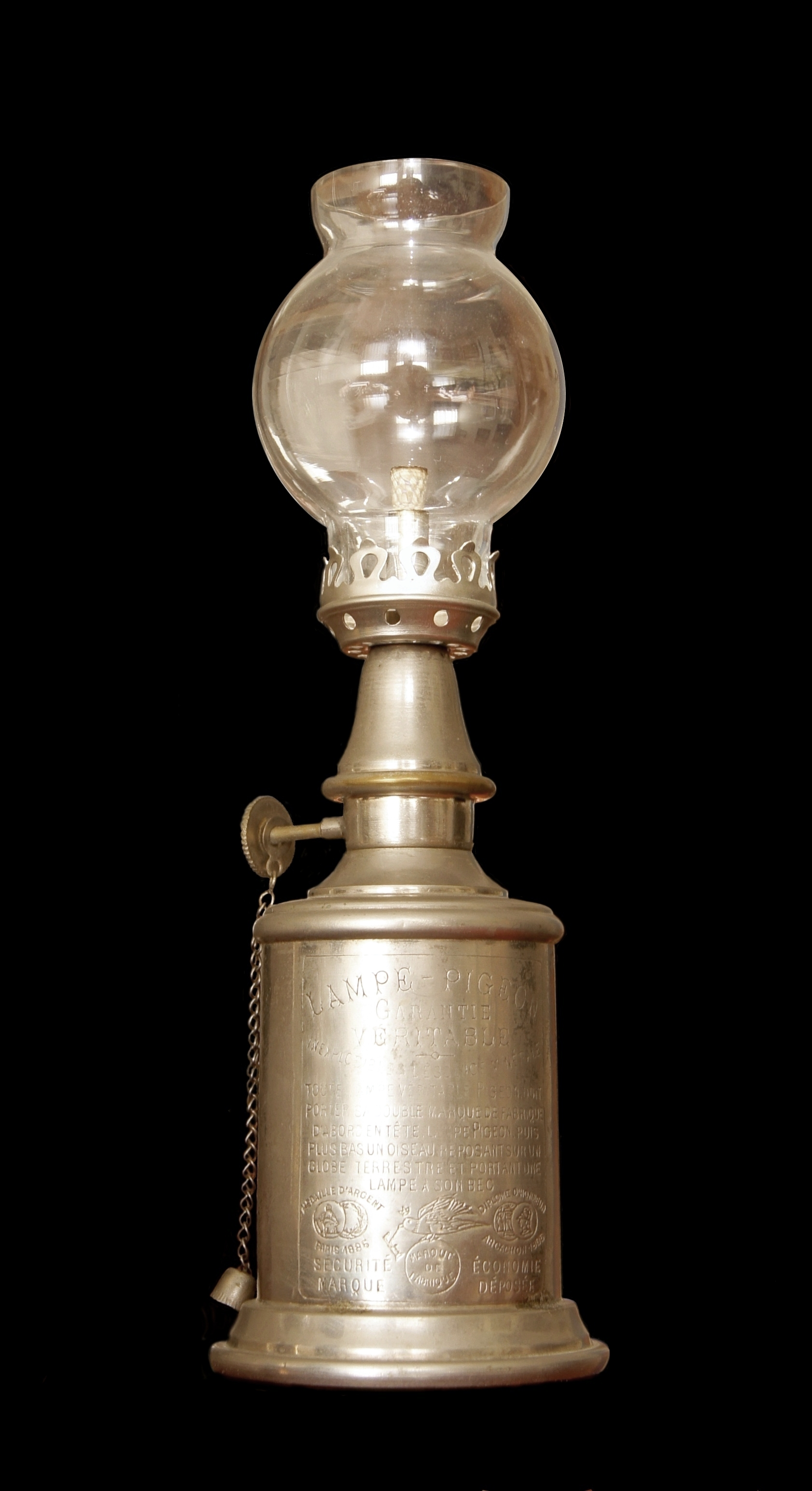 a french "Lampe Pigeon", kerosene lamp made at the end of the 19th century (ca. 1885)